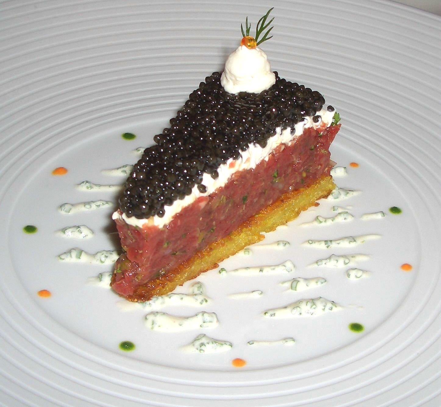 Beef fillet tartare and imperial caviar pie, 3-star restaurant Waldhotel Sonnora, chef Helmut Thieltges.